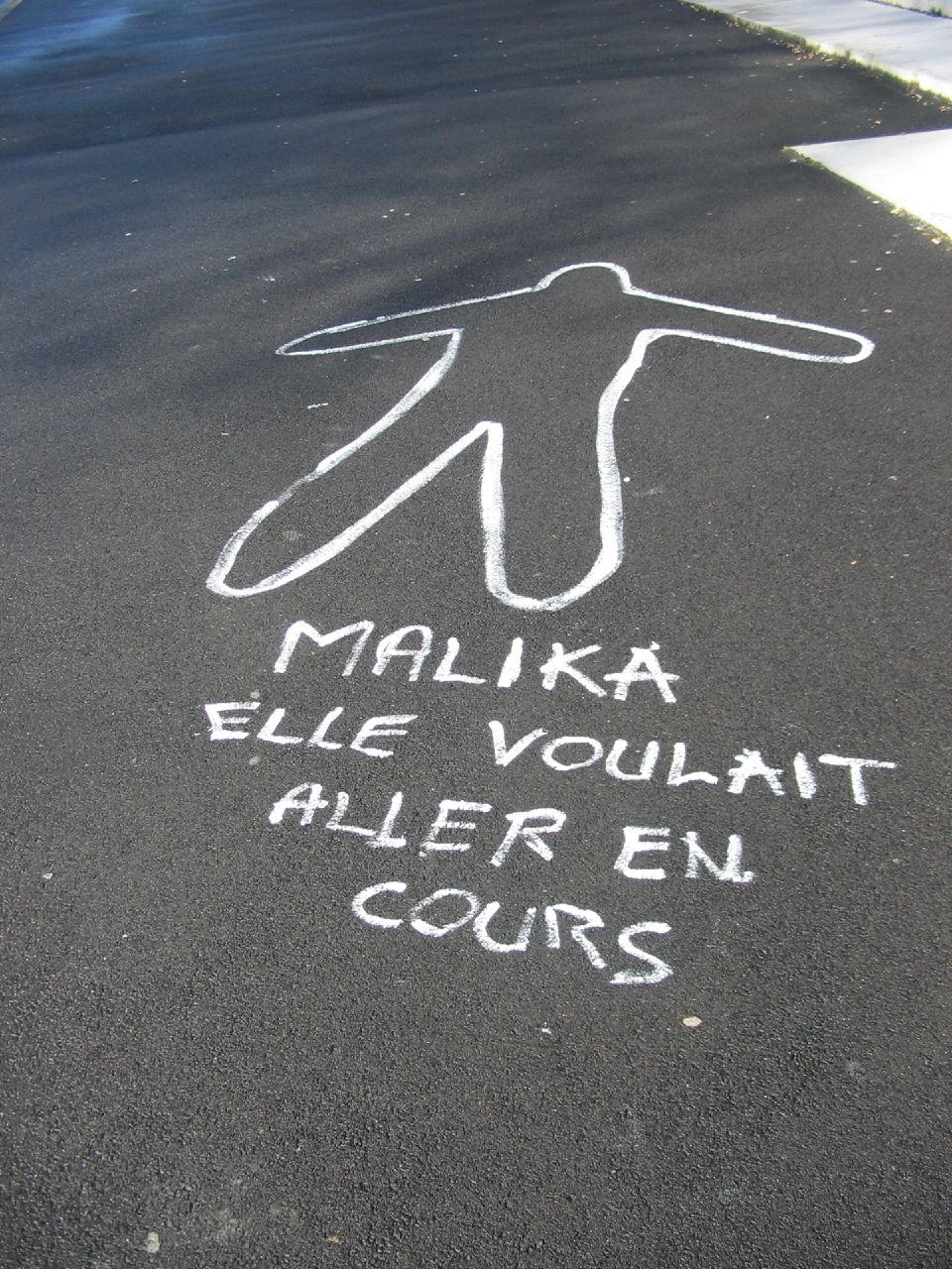 Action of communication concerning students' conditions created by the '06 in the University of Rennes 2 in Rennes, France. It was done by the "blocage" opposants. This kind of drawing was done all around the Villejean Campus, the main one.